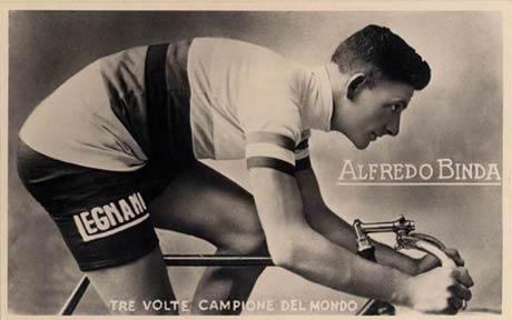 This has to be after August 31, 1932 when Alfredo Binda won his third Rainbow Jersey in Rome.